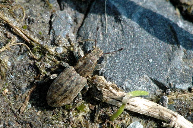 Picture taken in Commanster, Belgian High Ardennes . Species: Sitona lineatus